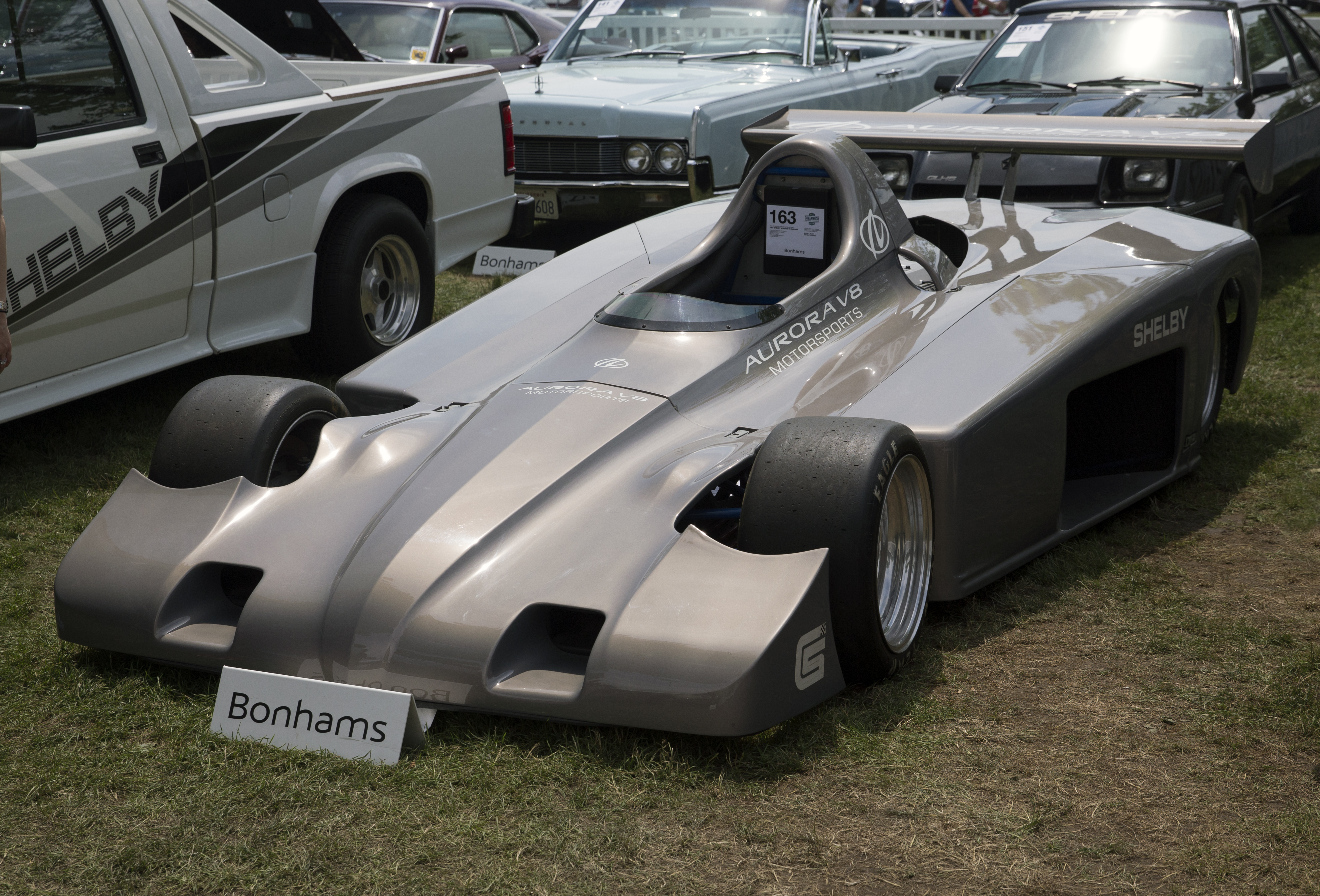 1997 Shelby Aurora V8 Can-Am prototype. Stillborn development, meant to continue Shelby/Racefab's single-model racing series with a 500hp Olds V8 engine. Offered for sale at the 2018 Greenwich Concours d'Elegance.